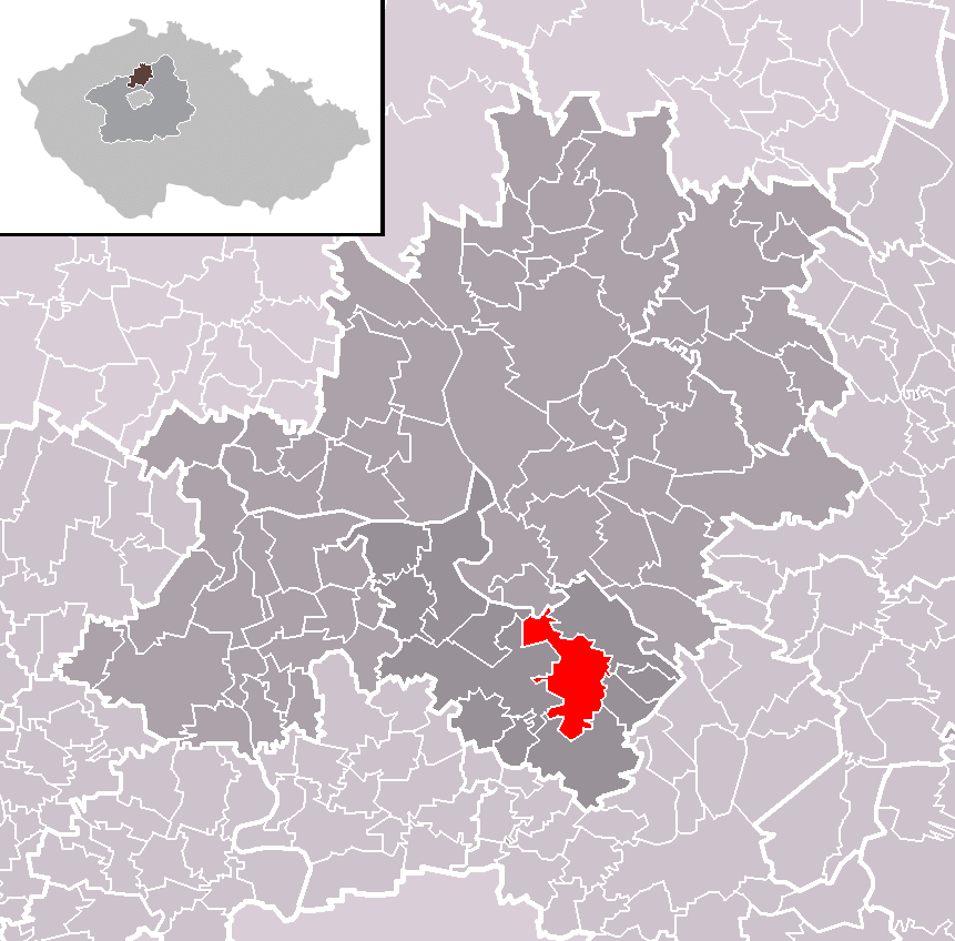 Location of Tišice municipality within Mělník District and administrative area of Neratovice as a Municipality with Extended Competence.